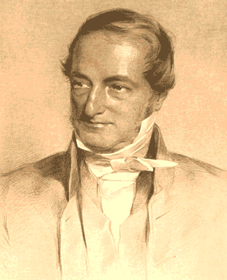 British geologist William Conybeare (1787-1857)